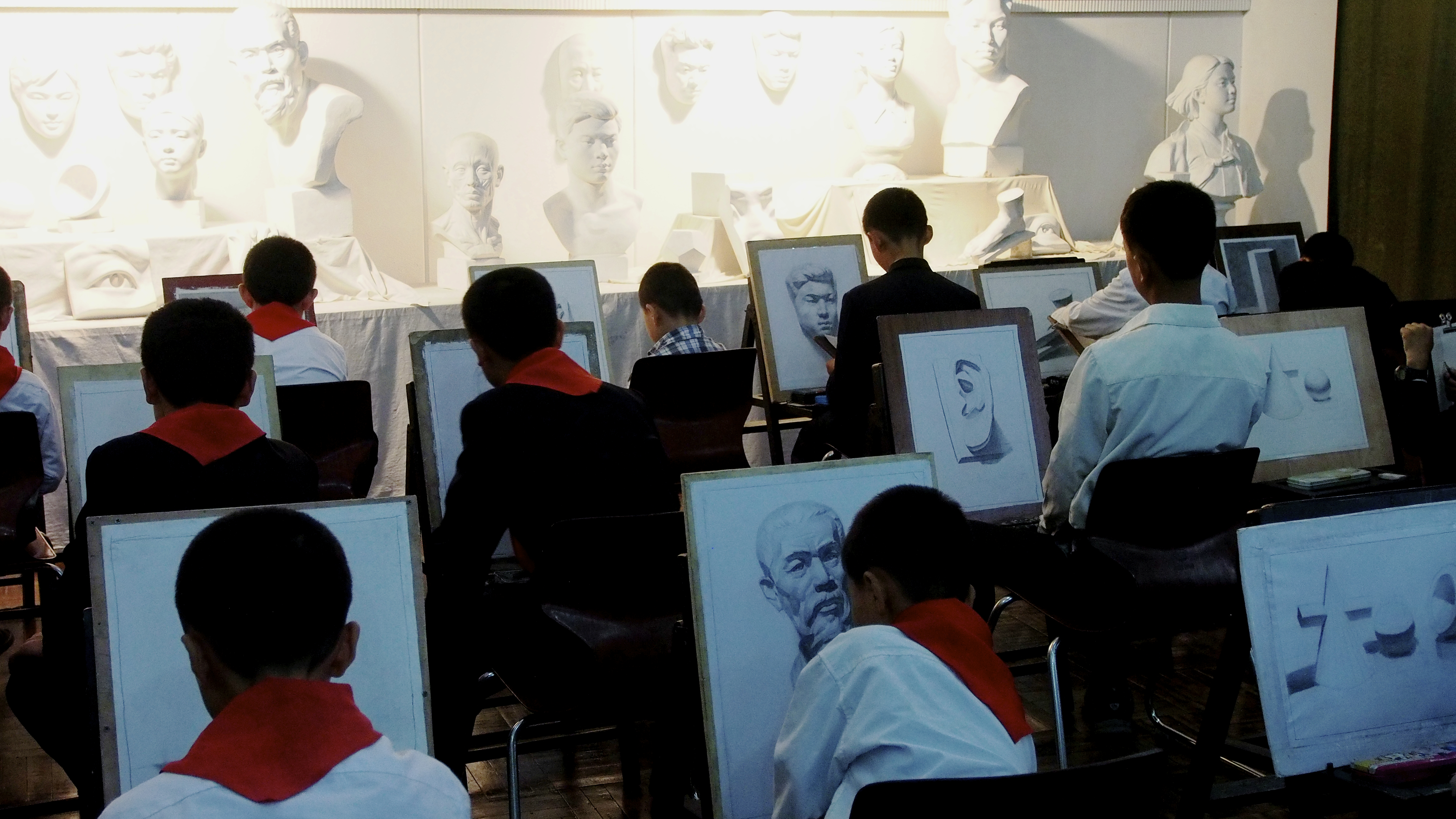 Visiting The Mangyongdae Schoolchildren’s palace